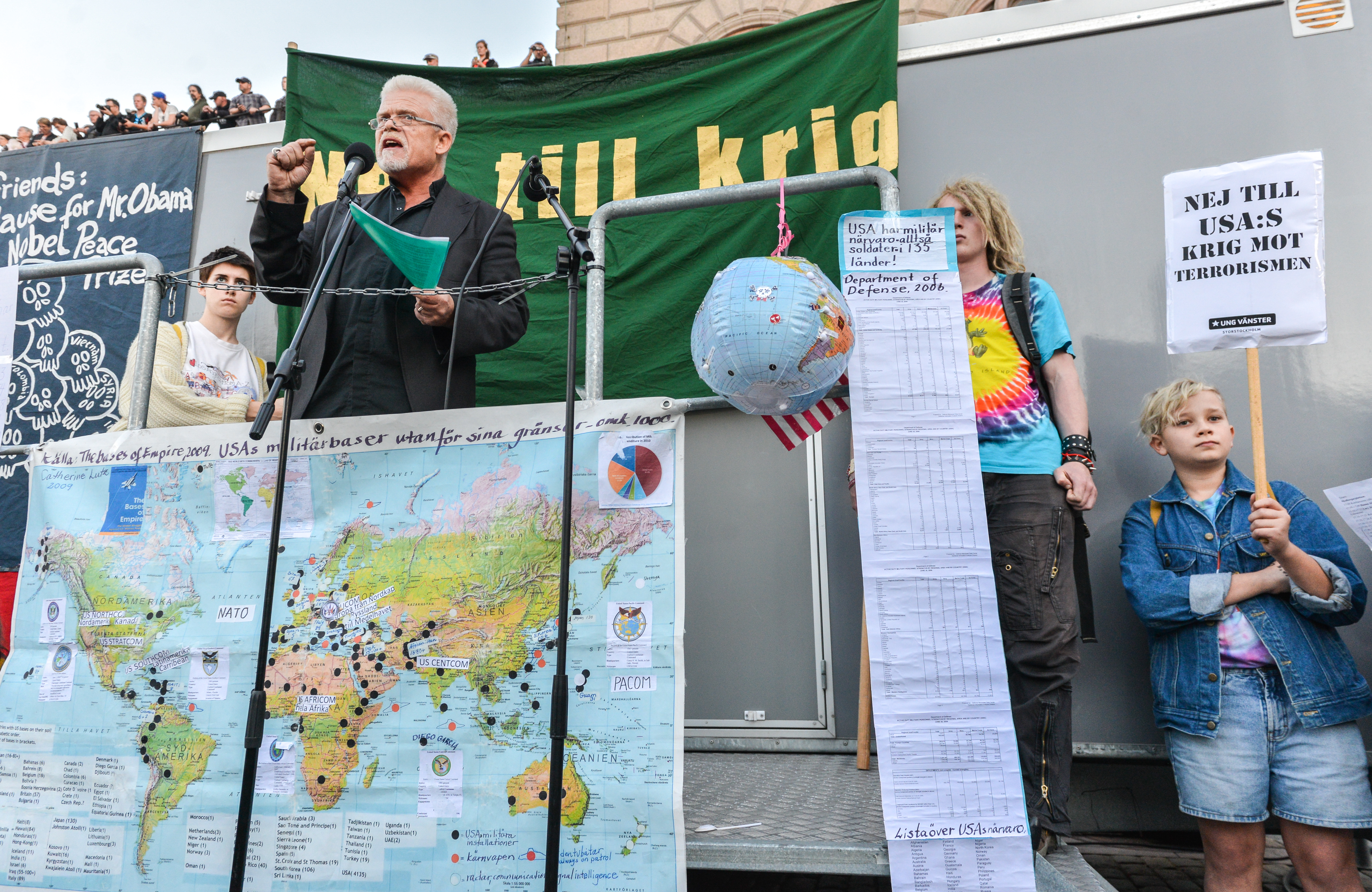 Protest groups during President Obama's visit to Sweden, Stockholm, in September 2013.